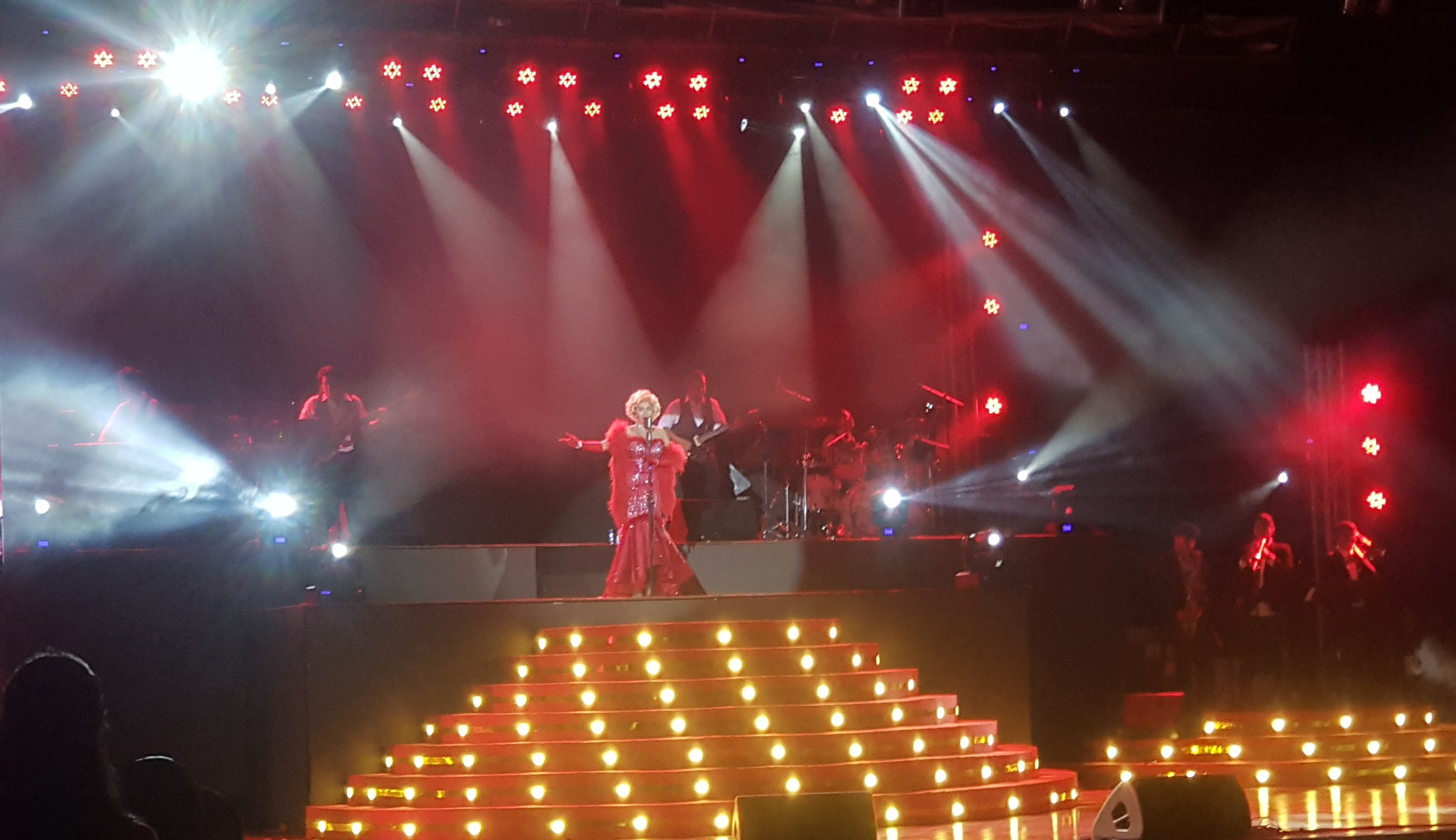 RetroREDVolution Show